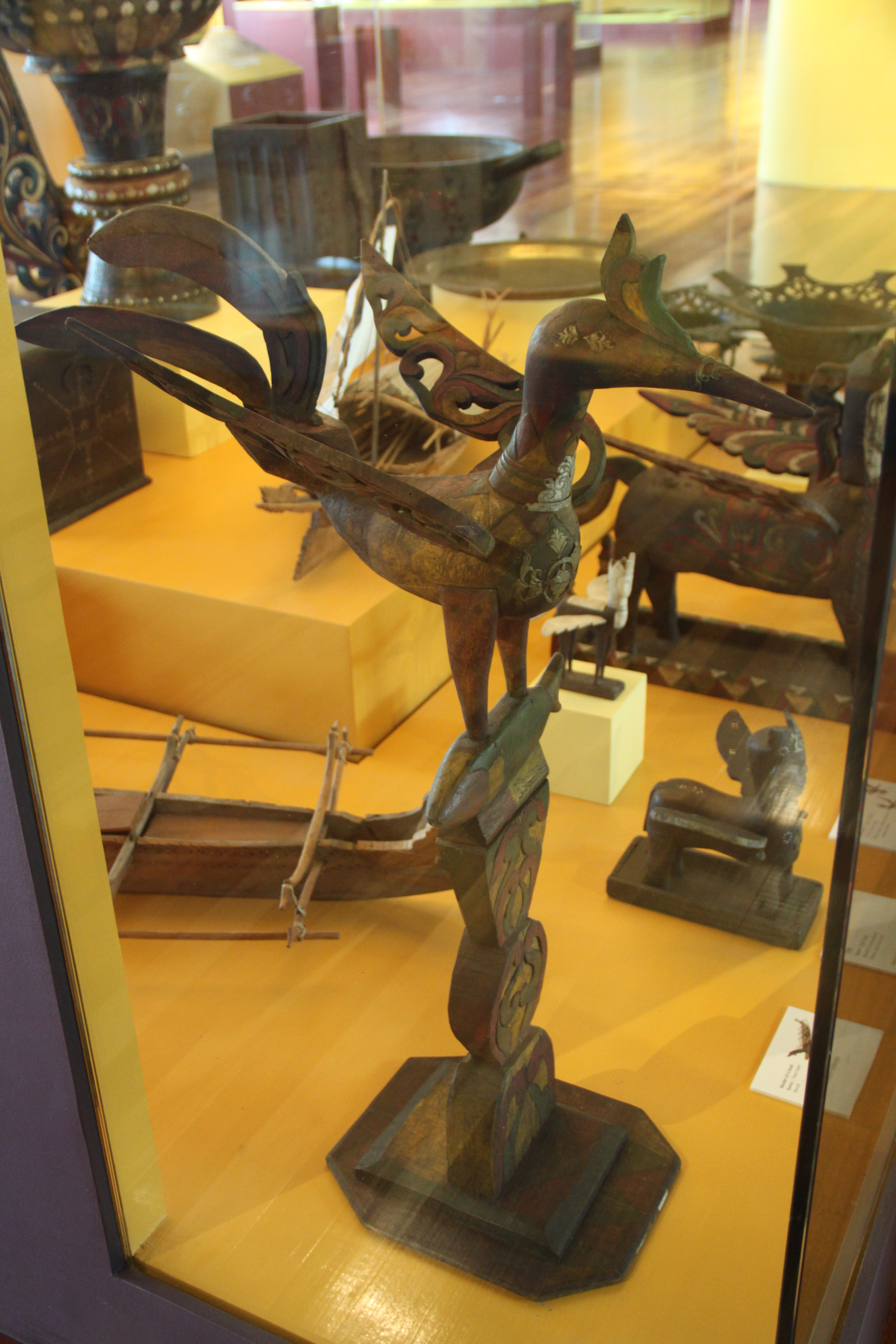 Bangsamoro and Lumad Cultures Gallery, Museum of the Filipino People, Rizal Park, Manila, Philippines. Complete indexed photo collection at .